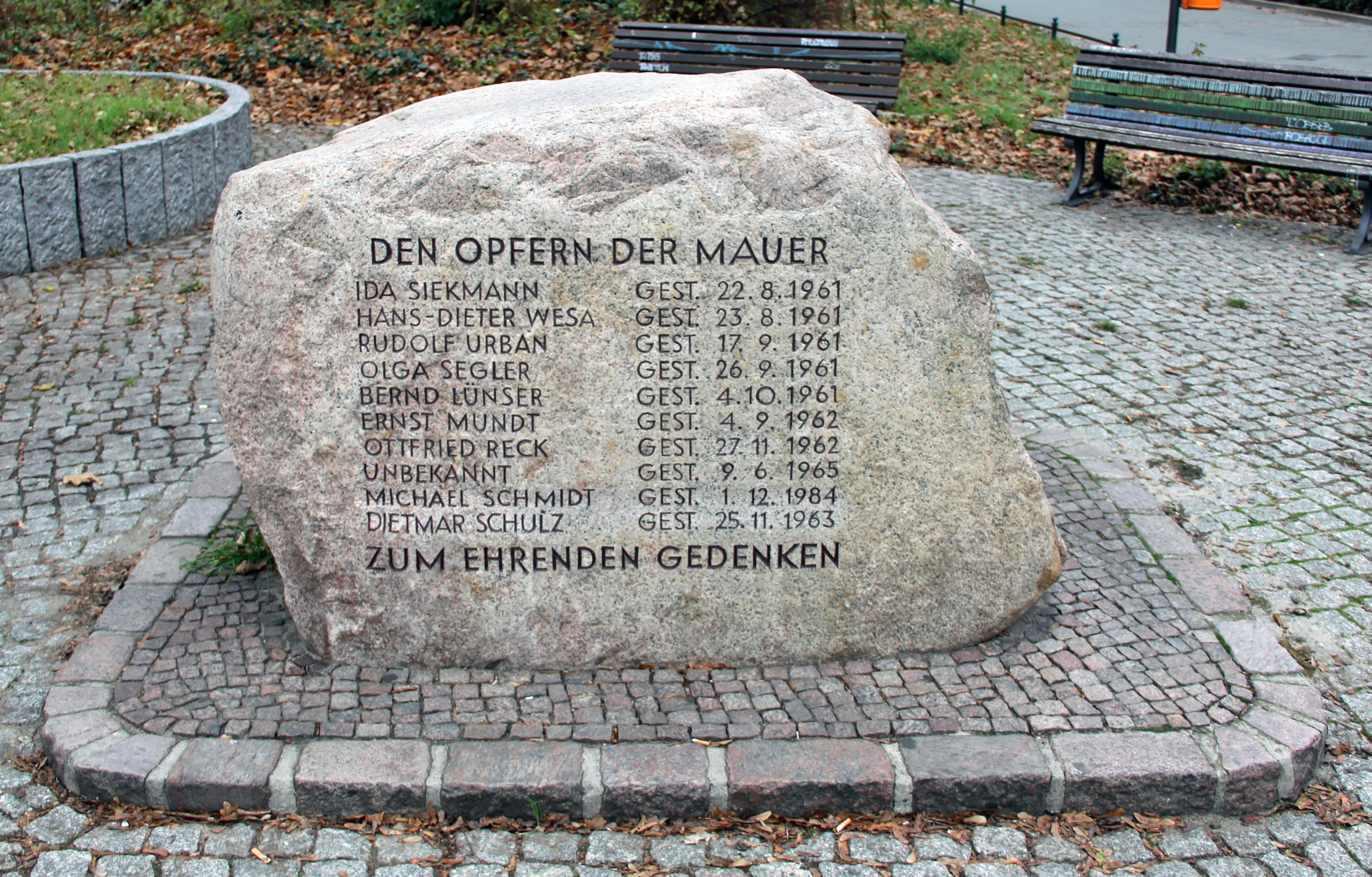 Memorial stone, Todesopfer an der Berliner Mauer, Bernauer Straße 69-70, Berlin-Gesundbrunnen, Germany